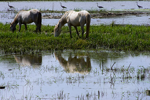 Lake Sils, located in Sils, a village in the coastal county Selva (Girona, Catalonia).